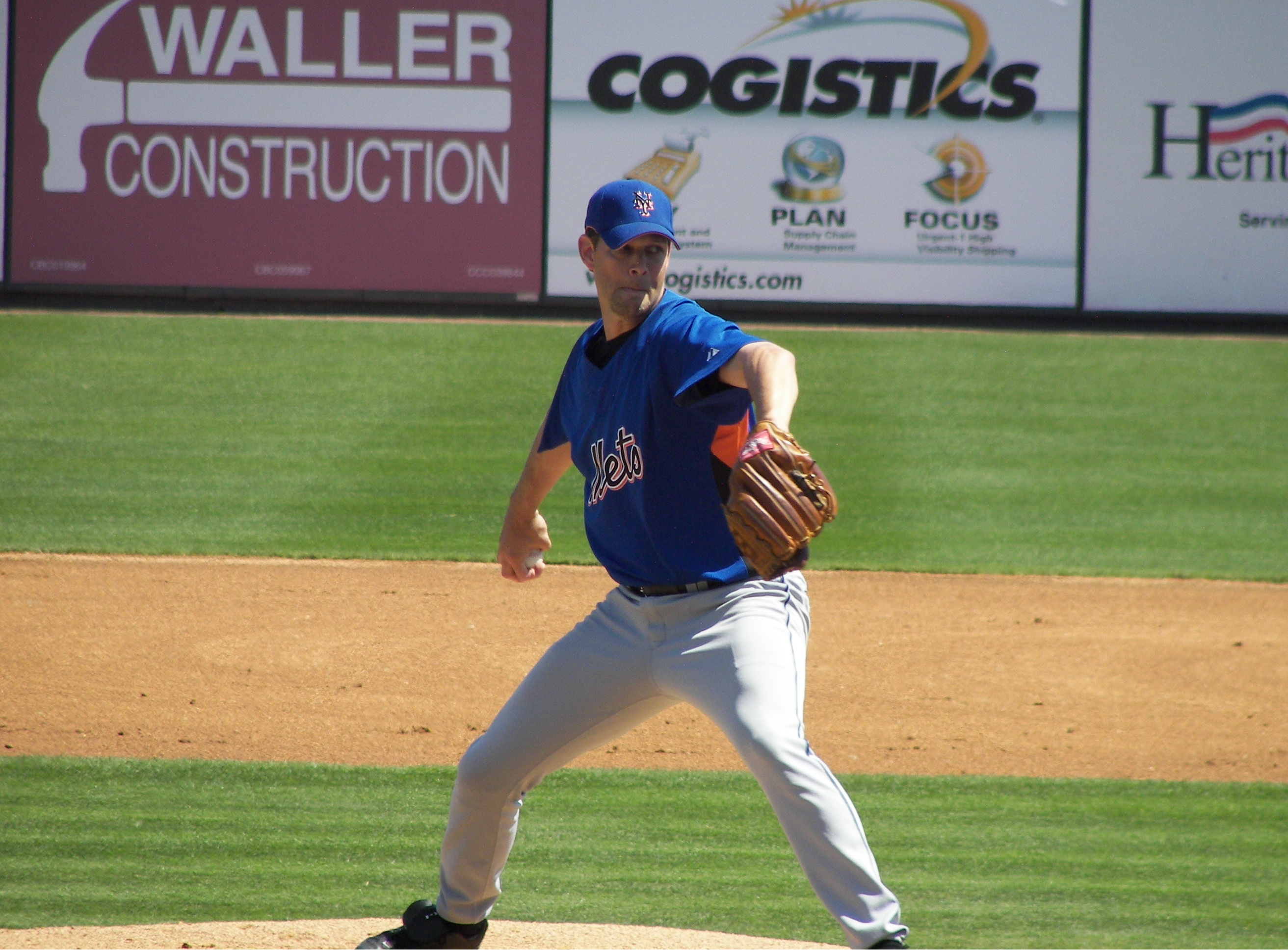 New York Mets pitcher Aaron Sele during a Mets/Detroit Tigers spring training game at Joker Marchant Stadium in Lakeland, Florida.